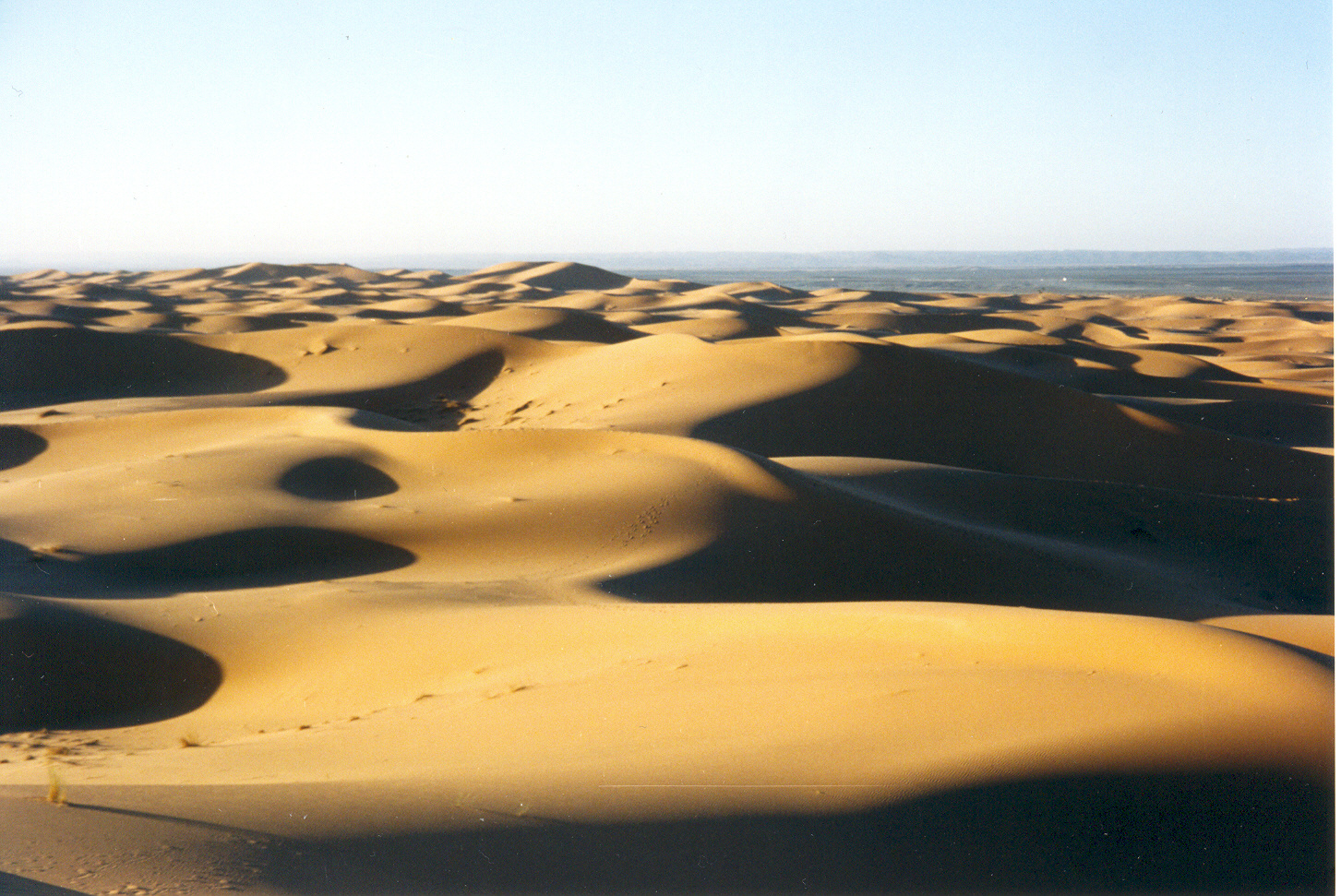 Ergs in Merzouga, Morocco